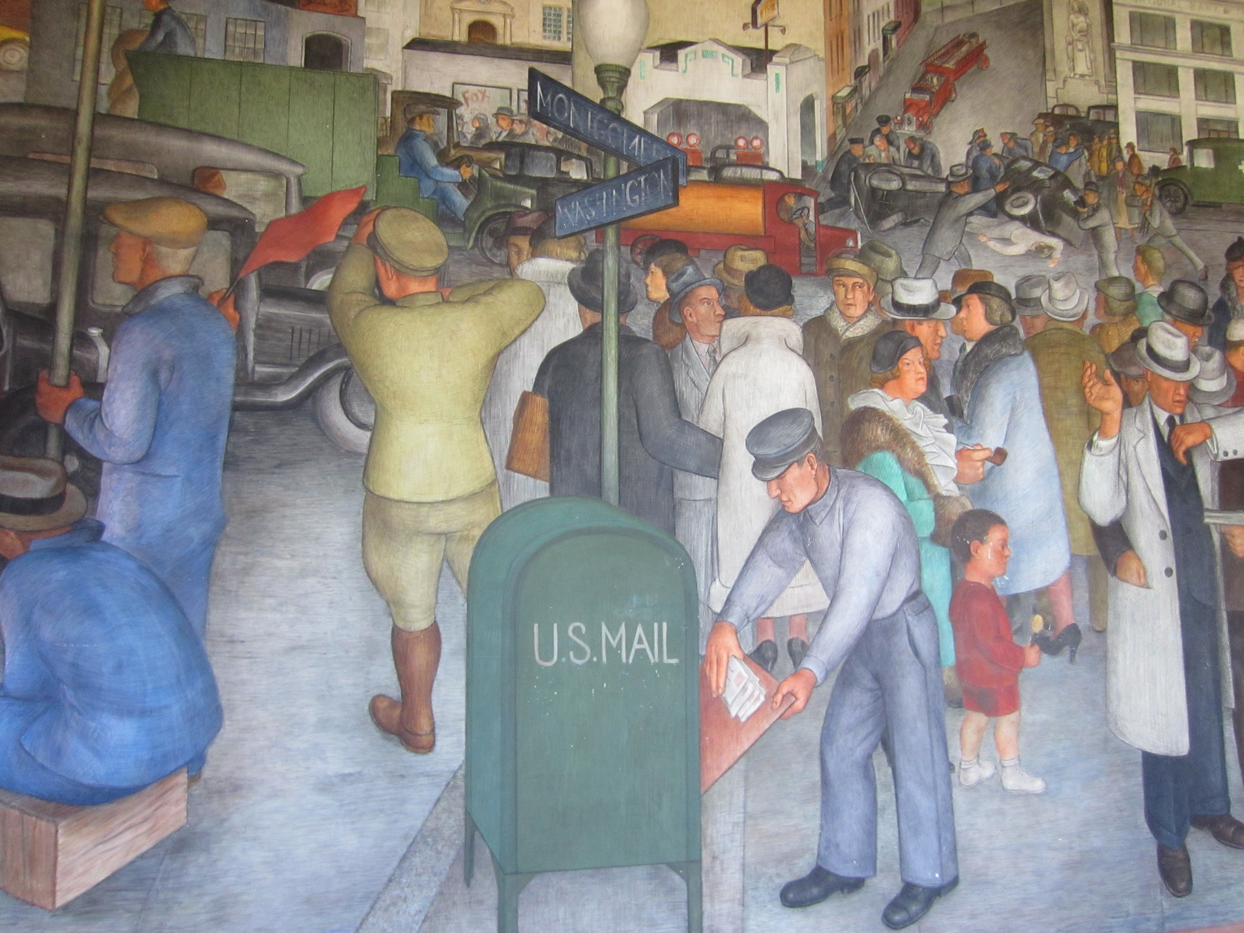 Coit Tower, San Francisco (2013)